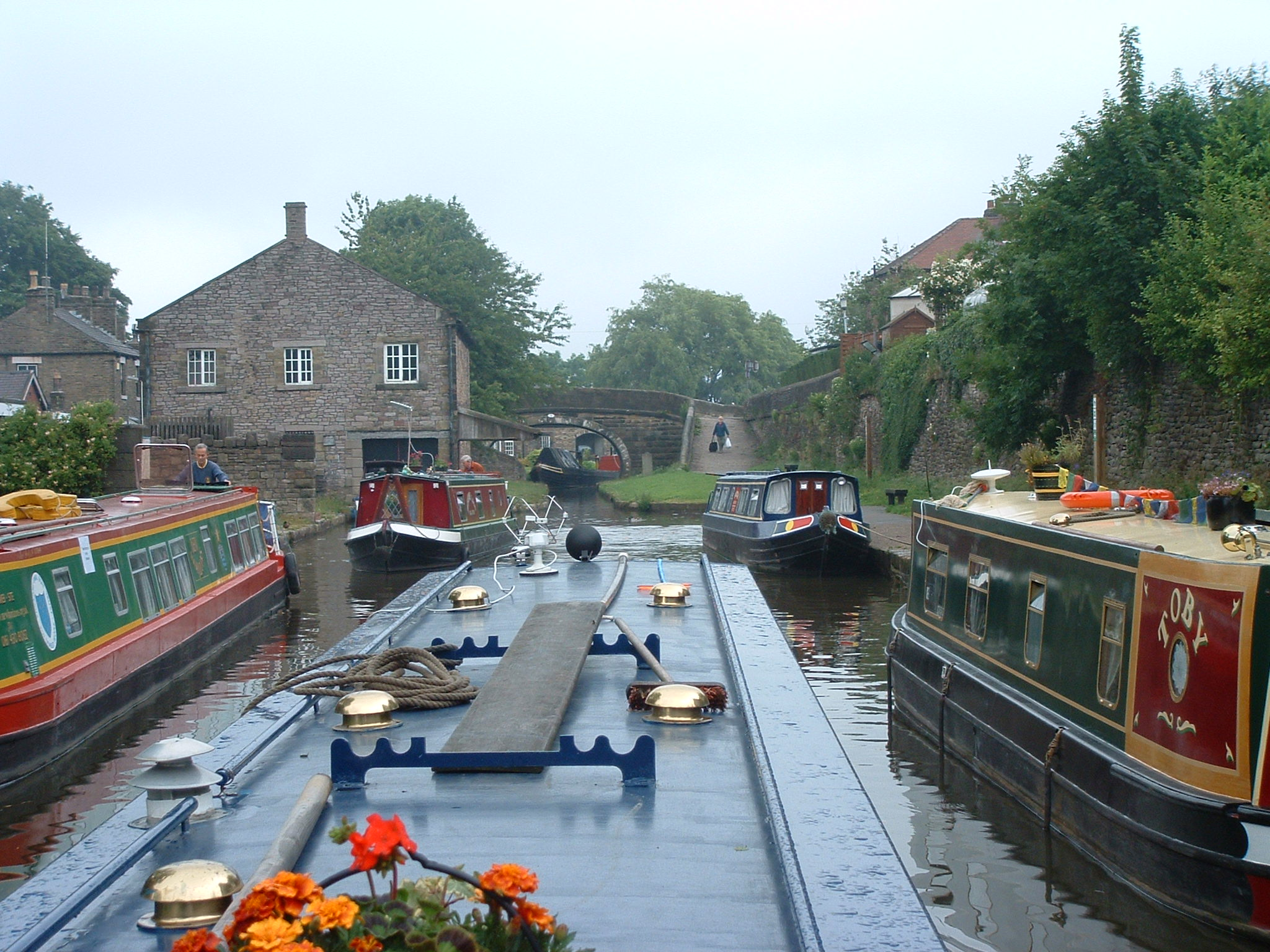 Macclesfield Canal just before Marple Junction Picture taken by uploader, Akke.